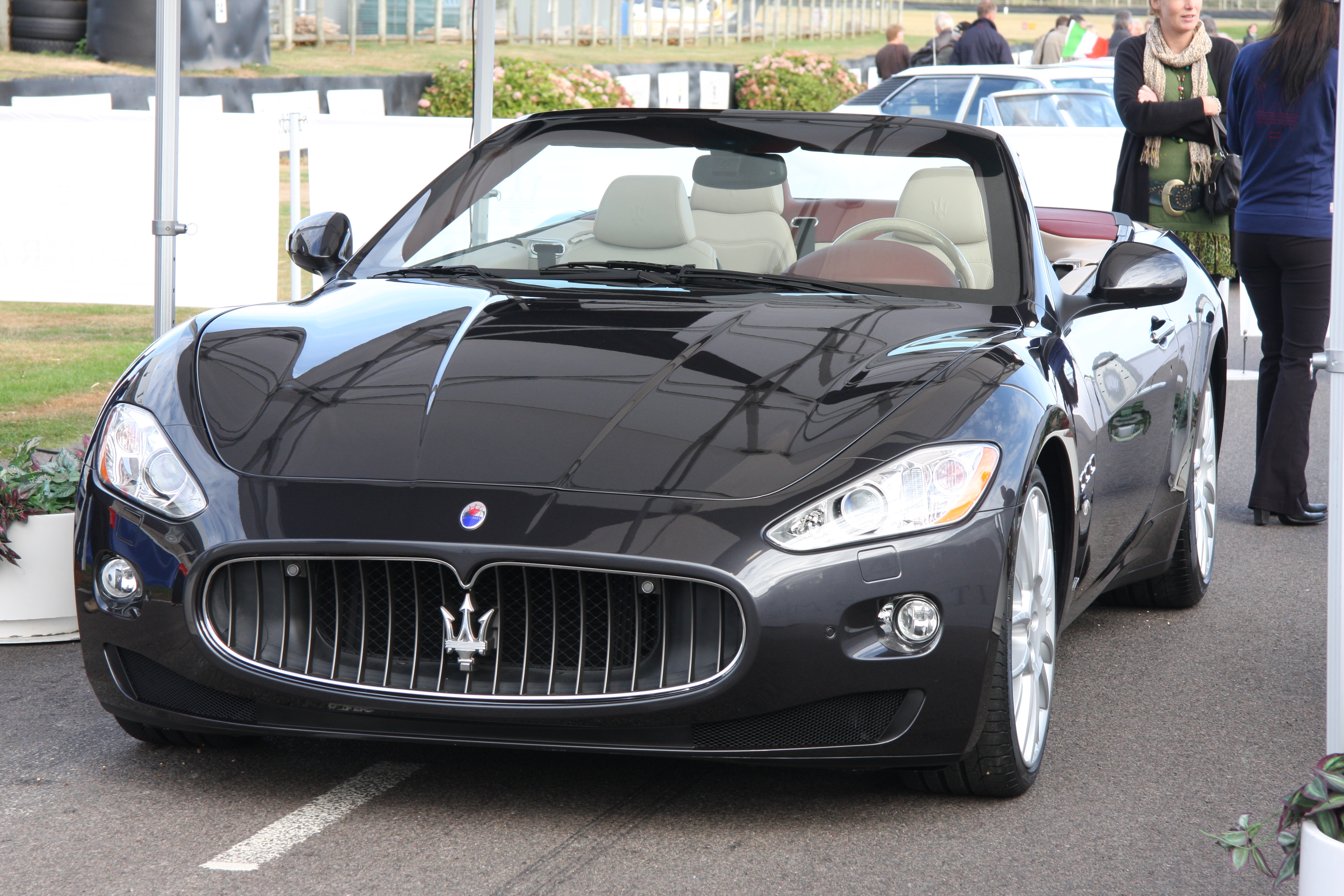 Goodwood Breakfast Club, October 2009